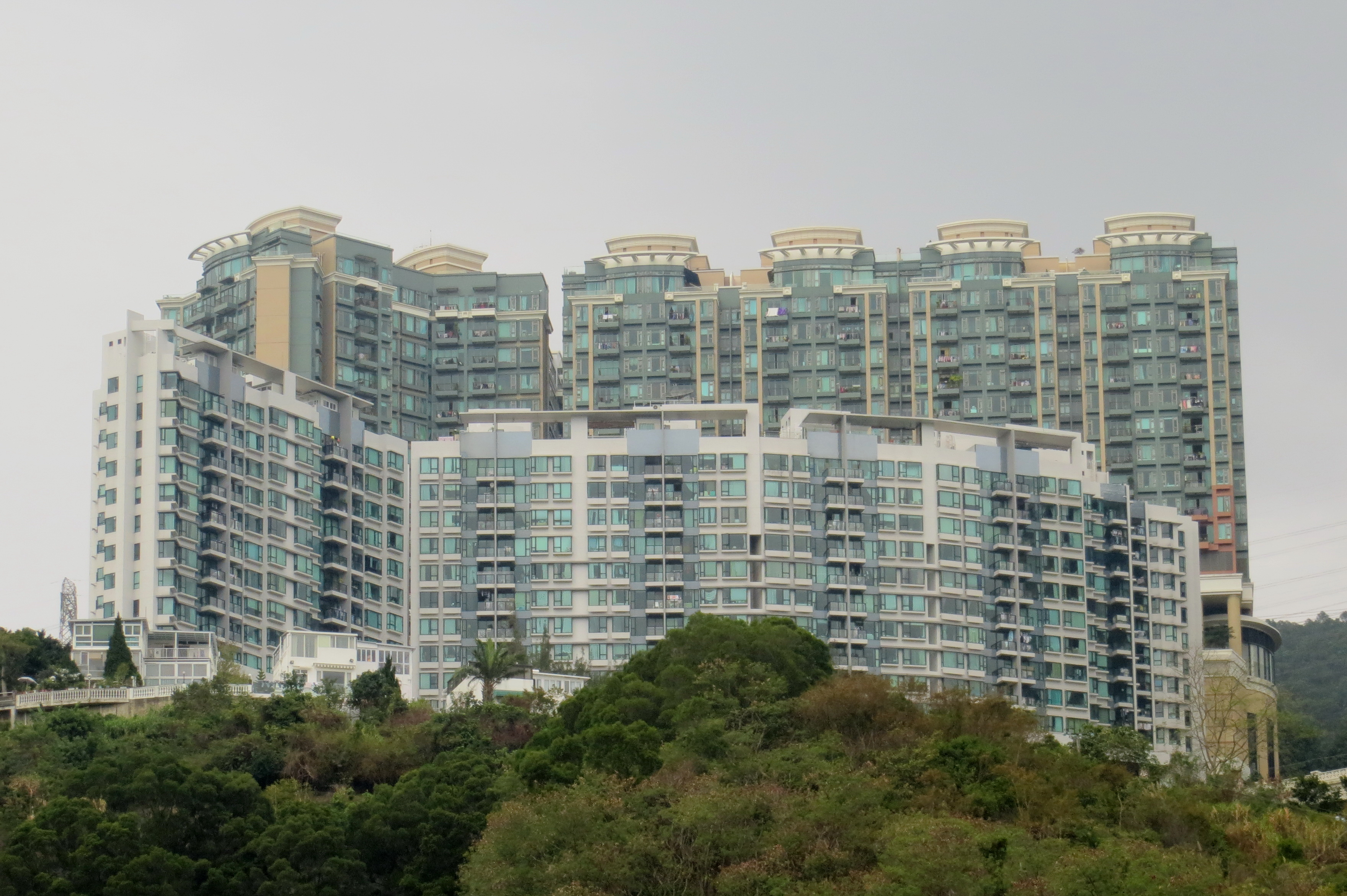 The Cliveden, Tsuen Wan, Hong Kong.